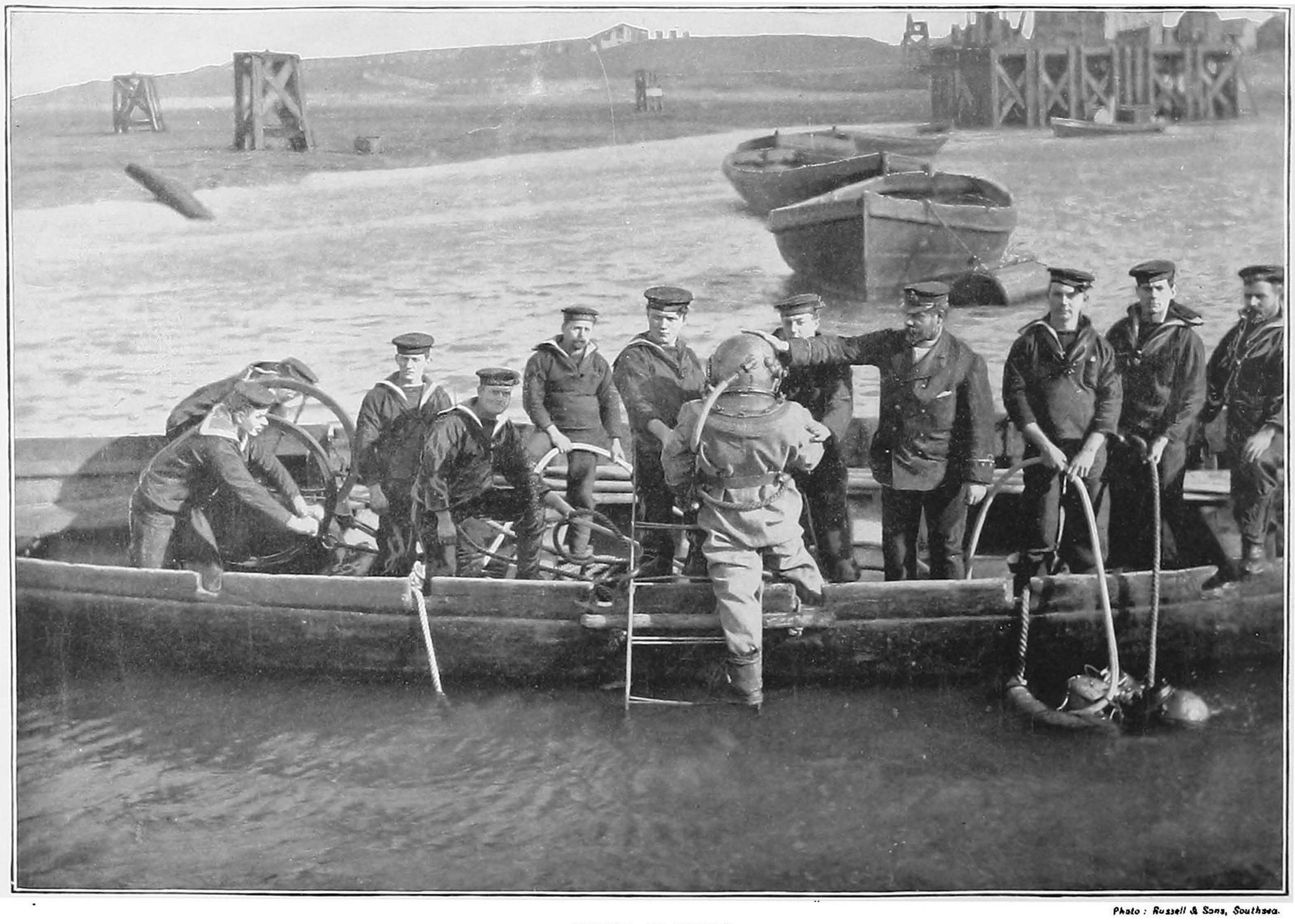 DIVERS AT WORK. Such are the exigencies of modern warfare that neither in the Army nor the Navy does (he service of earlh or sea suffice for the operations of our soldiers and sailors. While our soldiers survey the enemy's lines, or destroy his works, from their balloons far above the earth, our sailors are constantly compelled to dive into the depths of the element upon which they live. The picture shows a diving party from H.MS. Excellent at Portsmouth. One diver has just risen to the surface, another is descending. The work is not for a novice to undertake. Trying, and at the outset often painful, it requires an adequate apprenticeship; and to a strong physique the diver must add a dauntless courage which alone can enable him to do his work among the terrible scenes with which he is sometimes confronted in his wanderings on the ocean bed.